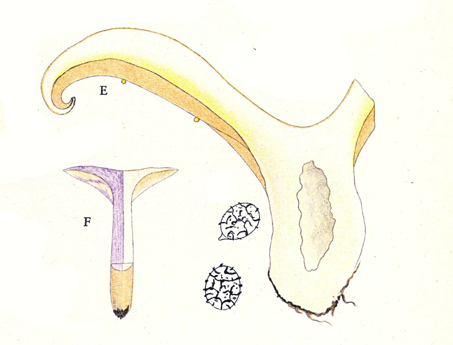 Lactarius flavidus ss. Lange in J.E.Lange: Flora agaricina Danica. Tab. 170 F. Summary Lange, Jakob Emanuel (1940) Flora agaricina Danica. Vol.: V, Recato (Copenhagen), p. 40 Retrieved on October 22, 2012.